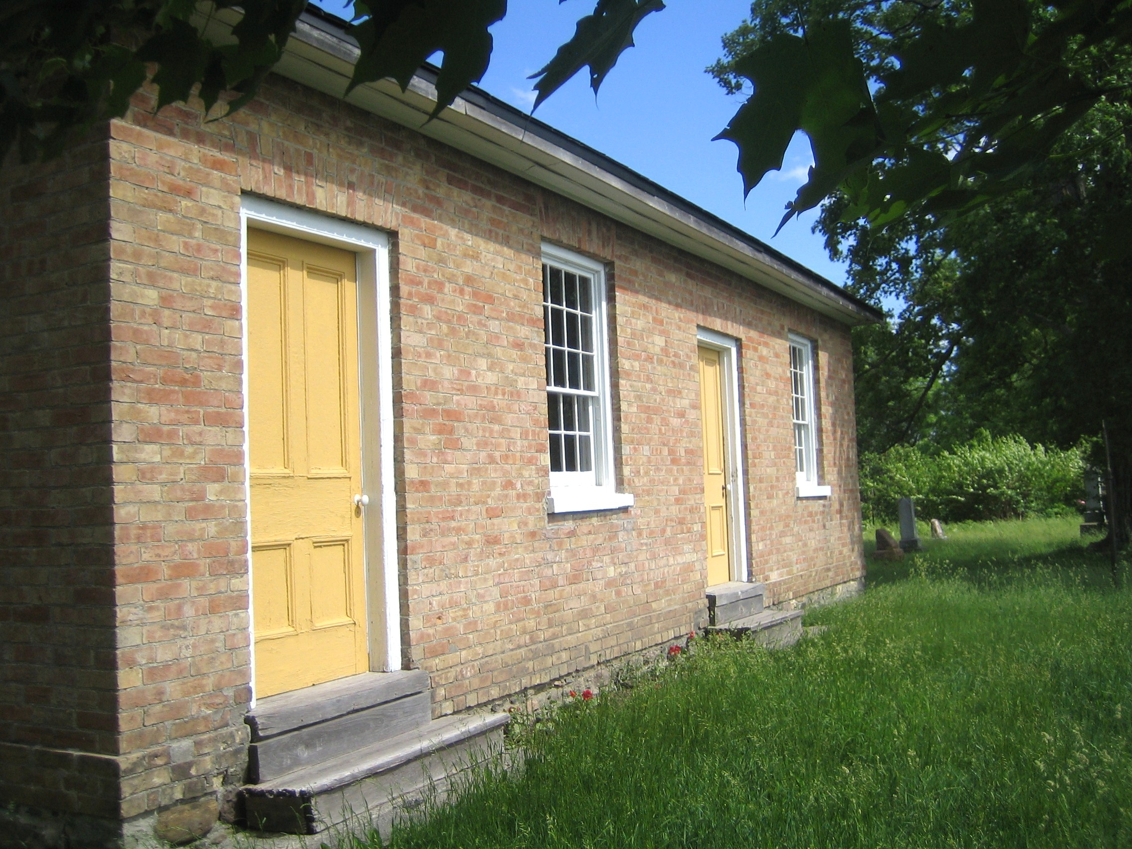 The Altona Mennonite Meeting House (Church) was constructed in 1852. It is located in the hamlet of Altona, Ontario, two miles east of Whitchurch-Stouffville on the Pickering-Uxbridge Townline. The oldest grave in the cemetery is dated 1835.